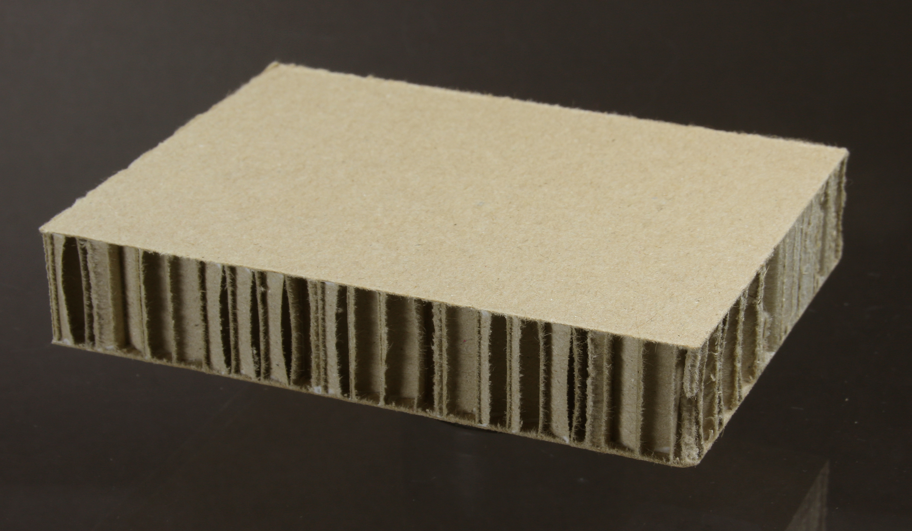 Honeycomb paperboard